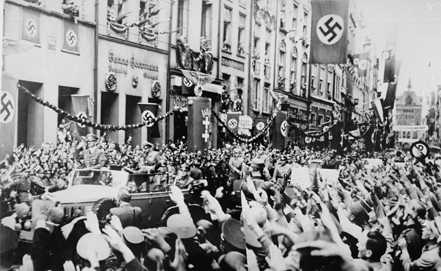 See title